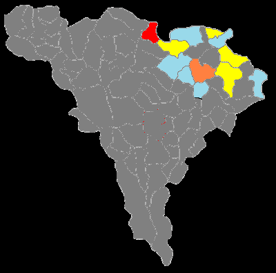 Hungarian minority in Alba County (Romania), according to the 2011 census, by communes (red = hungarian majority over 80%, orange = hungarian majority between 50 - 70%, yellow = hungarian minority over 20%, blue = hungarian minority between 10 - 20%, grey = hungarian minority under 10%).